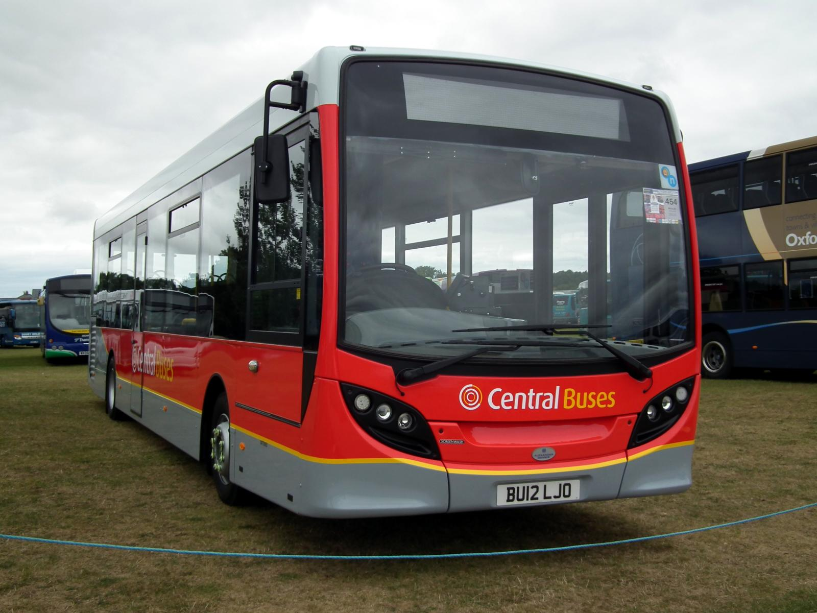 Central Buses (BU12 LJO), an Alexander Dennis Enviro200 Dart, seen at Showbus 2012.